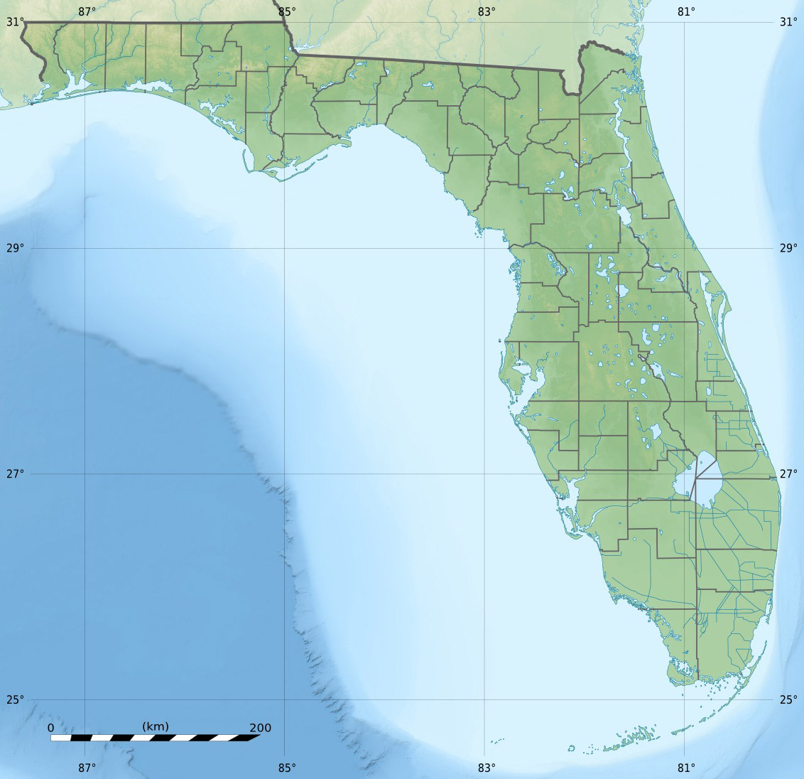 Blank physical map of the State of Florida, USA, for geo-location purpose, with counties boundaries.